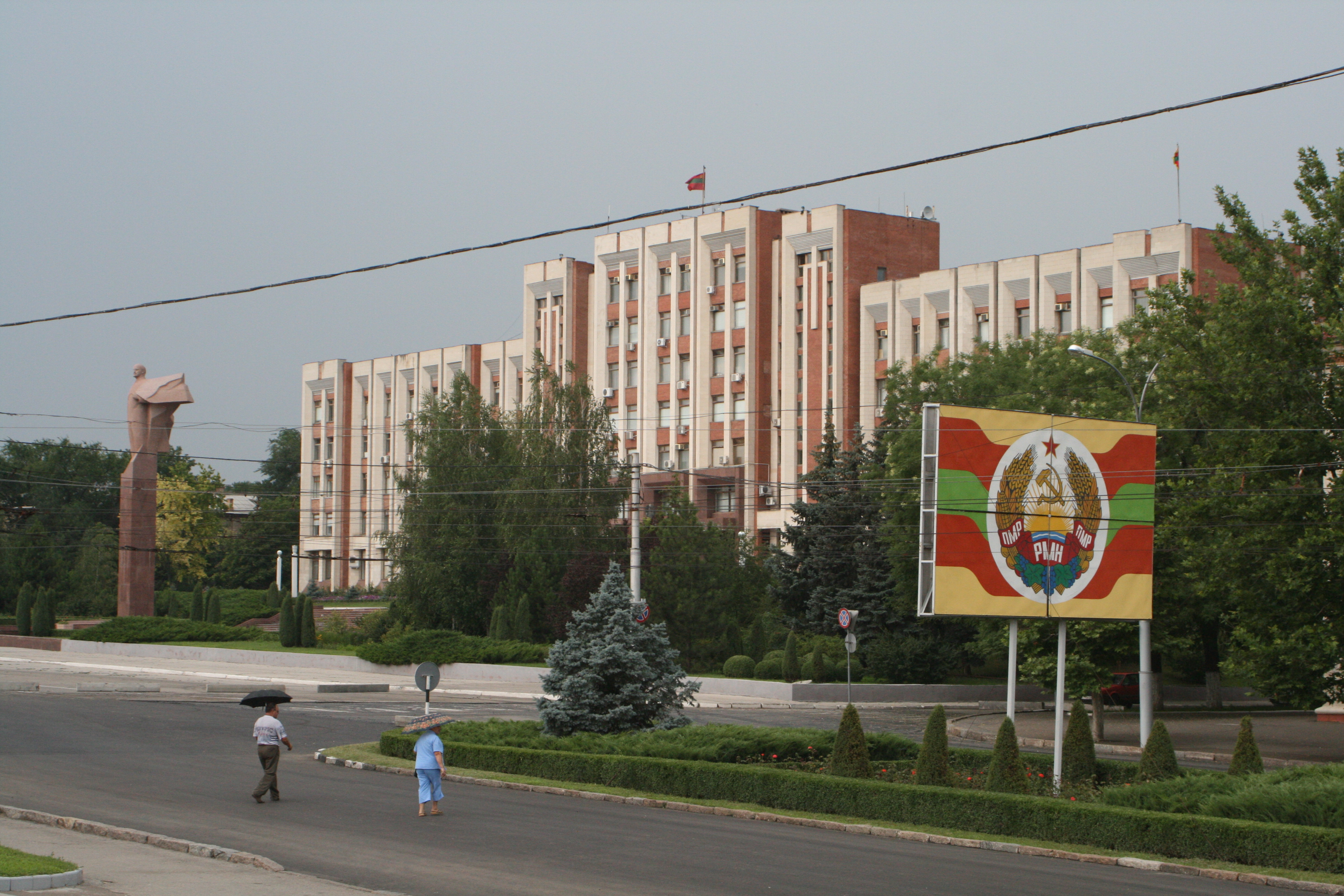 Building of the Supreme Soviet and Government of Pridnestrovie, Tiraspol